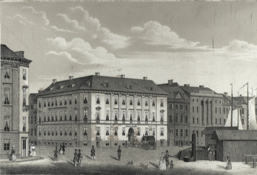 Hotel Royal at Ved Stranden in Copenhagen, Denmark